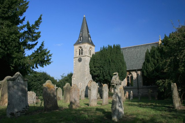 St. Matthews Church